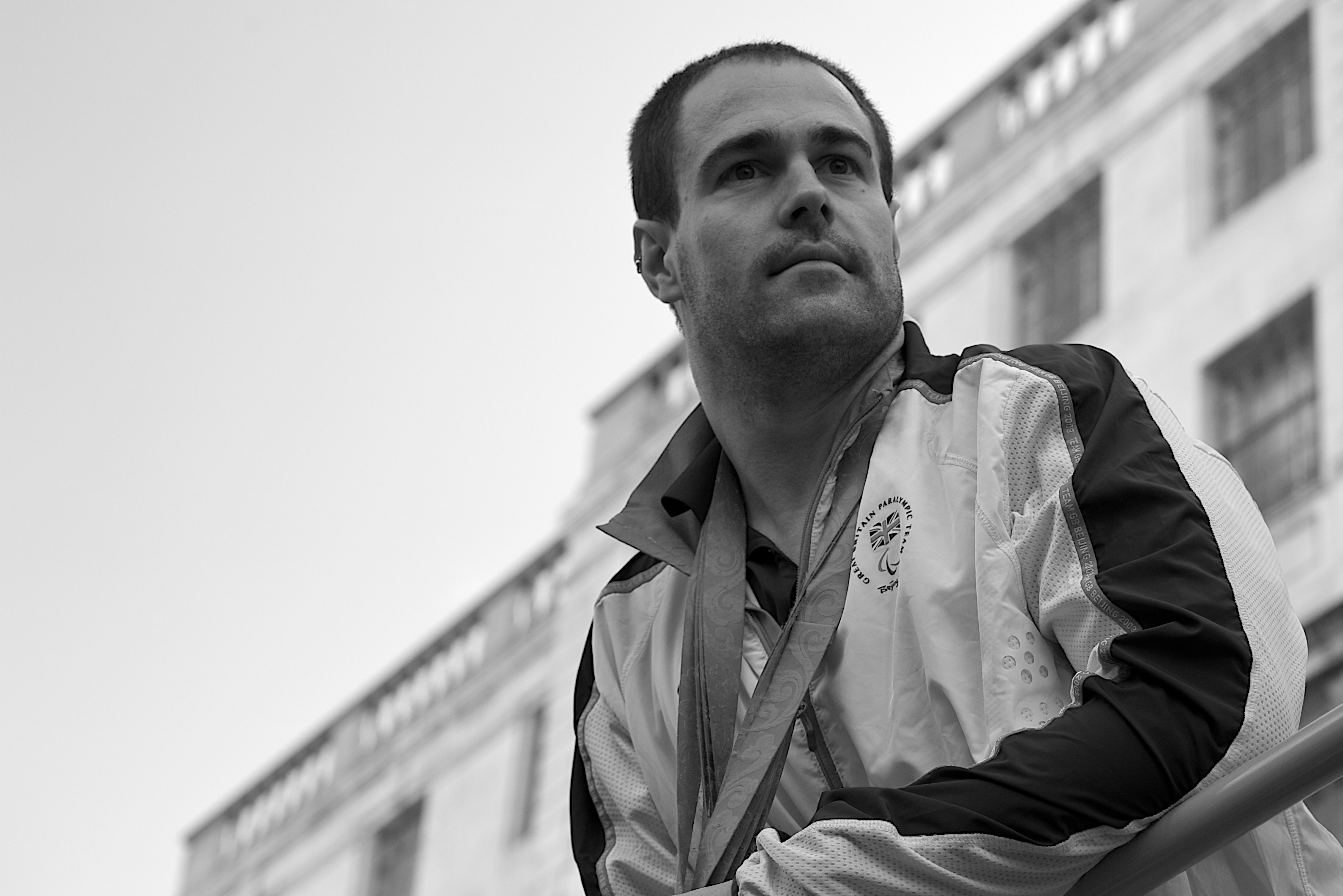 David Roberts (born 25 May 1980 in Llantwit Fardre), is a Welsh swimmer. A Paralympic gold medallist.He is pictured here at the 2008 London Olympic victory parade.